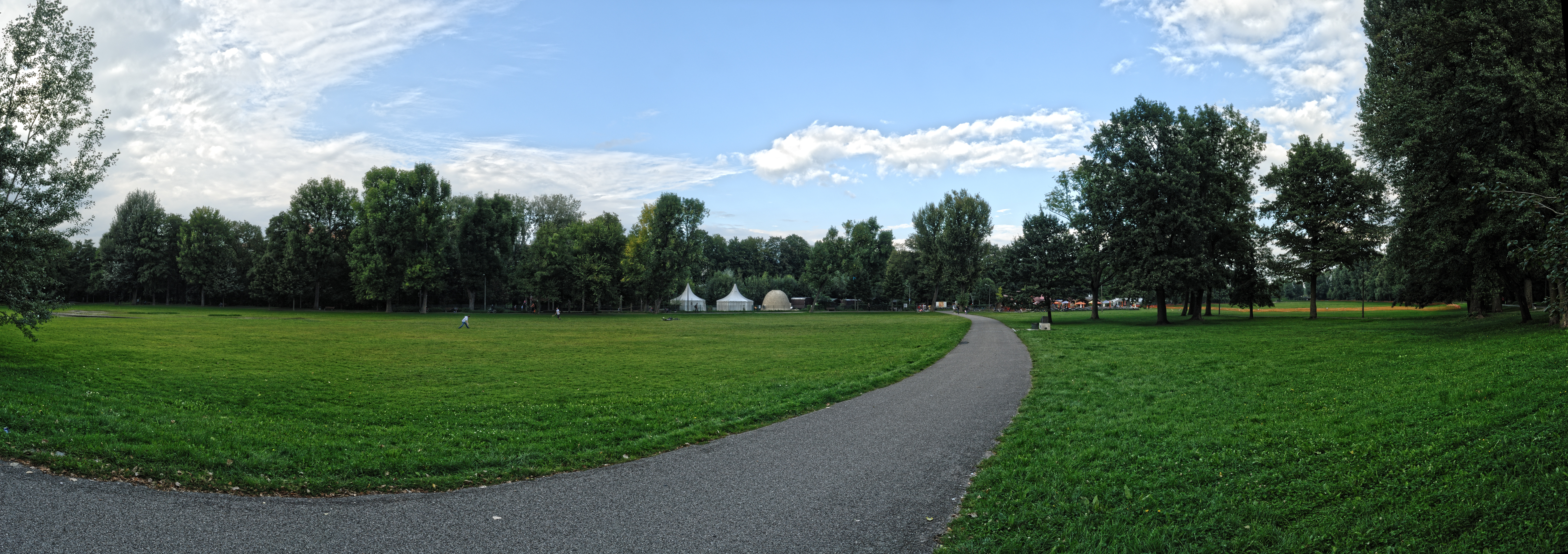 "Wöhrder Wiese" in Nuremberg